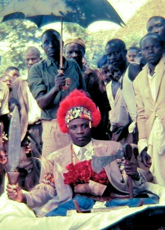 Mwata Kazembe XVII Paul Kanyembo Lutaba sitting in an open palanquin, on a tour of his lands in 1961, shortly after his appointment.